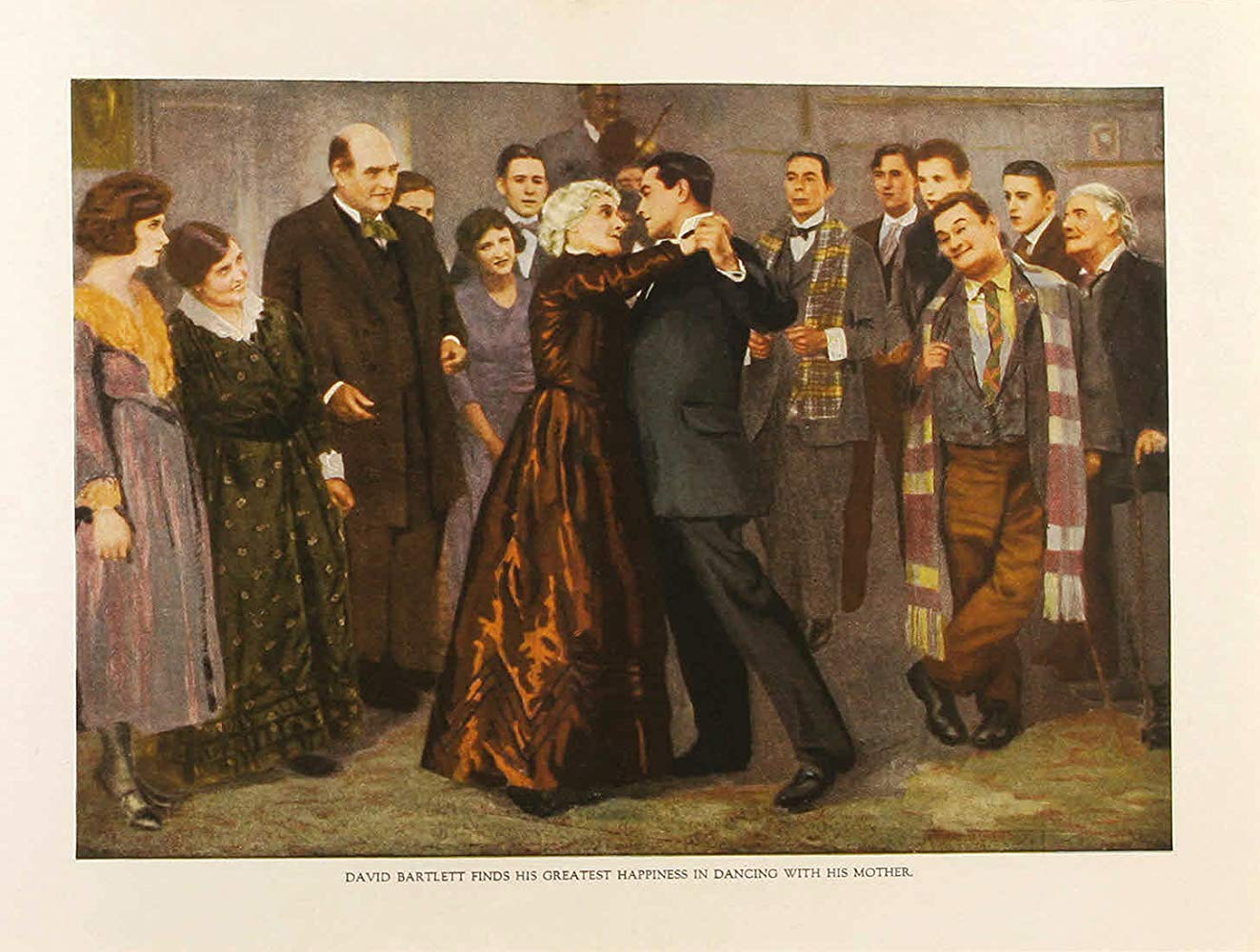 Kate Bruce dancing with her son Richard Barthelmess, a lobby card for the American film Way Down East (1920).